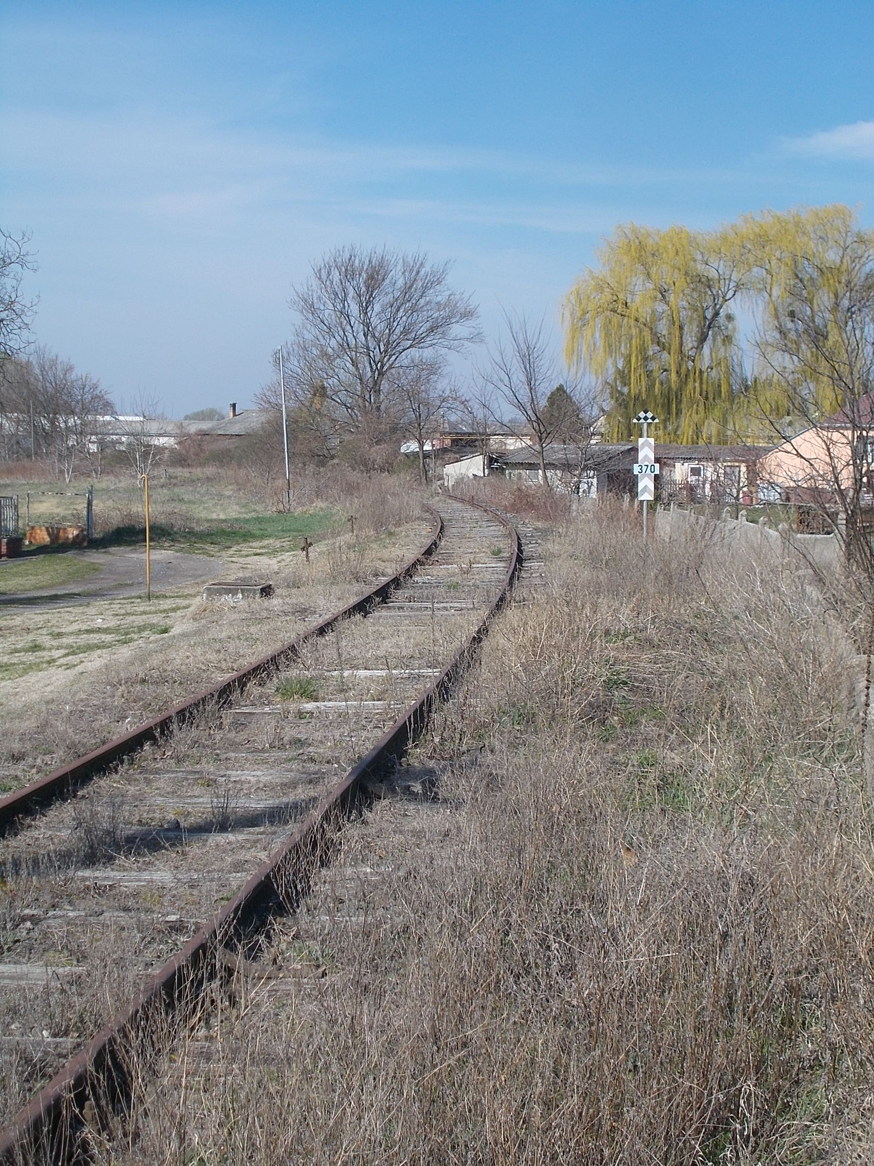 Sign at Tatabánya-Pápa railway line. - Perczel Mór út, Kisbér, Komárom-Esztergom County, Hungary.